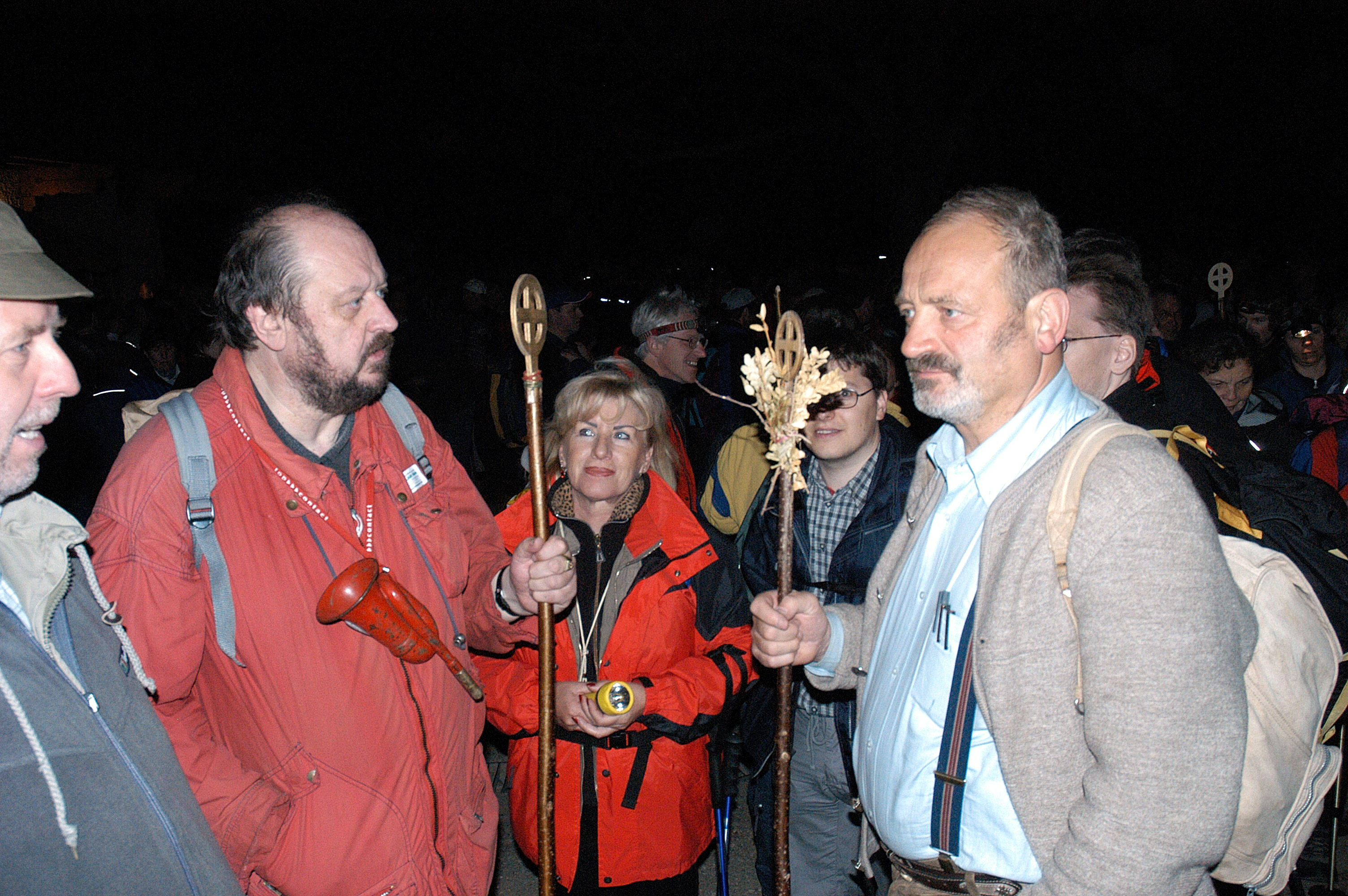 Vierbergler at midnight, ready to start the walk on top of Mount Magdalena, municipality Magdalensberg, district Klagenfurt Land, Carinthia / Austria / EU